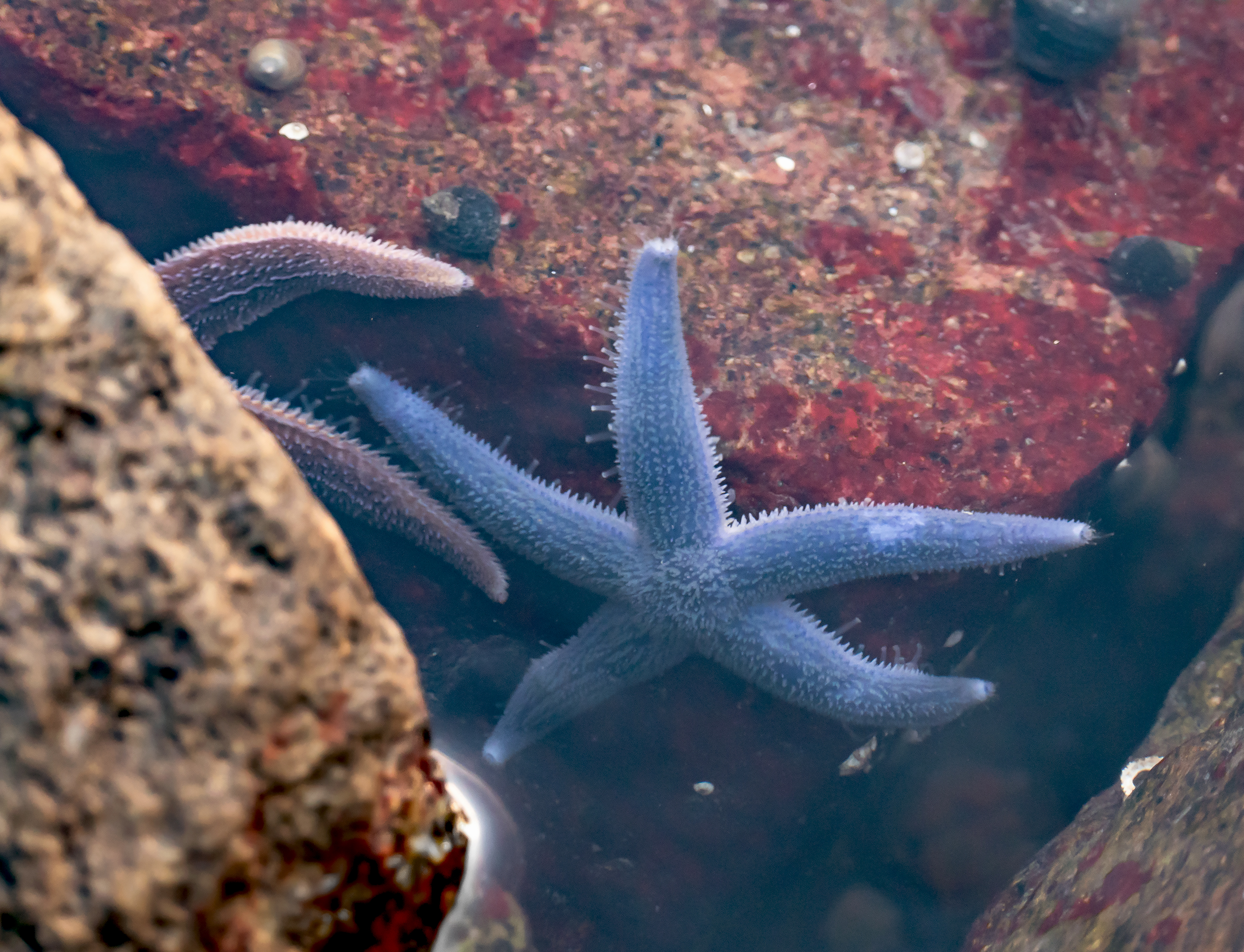 Common starfish (Asterias rubens) in Brofjorden at Govik, Lysekil Municipality, Sweden. The red on the stone is a form of red algae (Hildenbrandia).